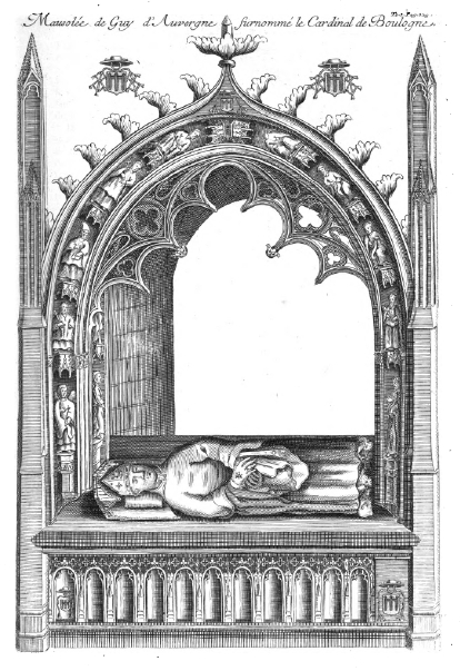 Tomb of Cardinal Guy de Boulogne, Abbey of Notre-Dame de Bouchet, near Clermont-Ferrand